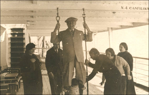 Mustafa Kemal Atatürk on Ege steamer during a tour to Antalya.